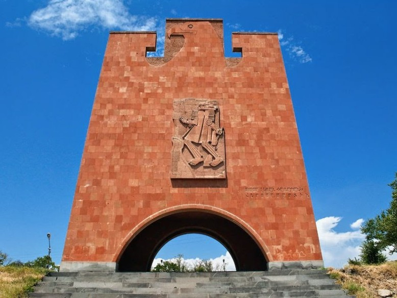 The monument for the defenders of Musa Dagh, village Musaler in Armavir marz